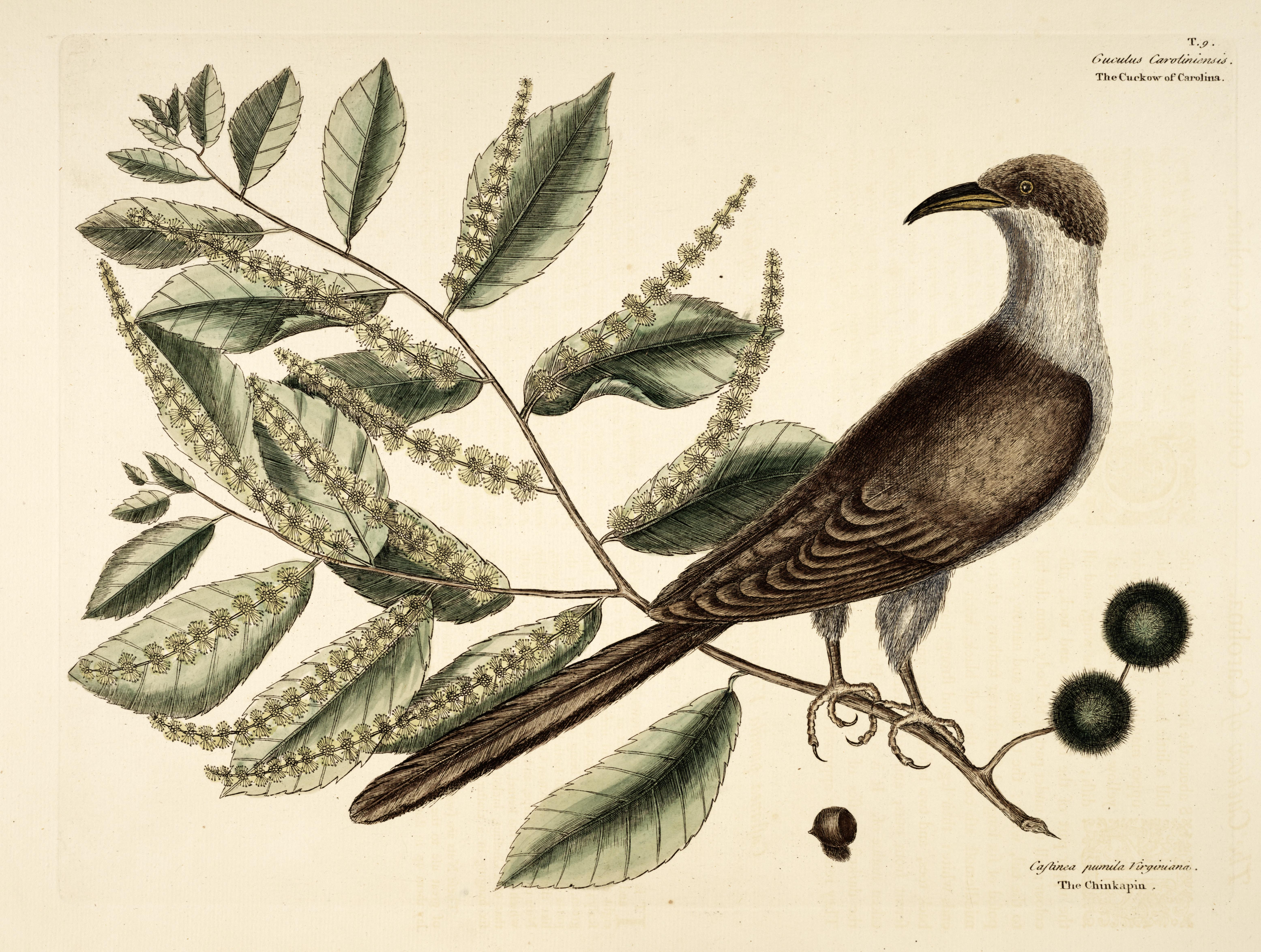 Plate 9 in Volume 1 of The Natural History of Carolina, Florida and Bahamas by Mark Catesby, George Edwards published in 1754. Also mentioned as Cuckow of Carolina.